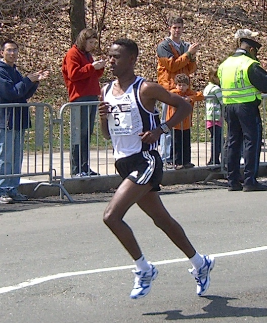 Gashaw Asfaw during Boston Marathon 2008 (finished fourth for males).